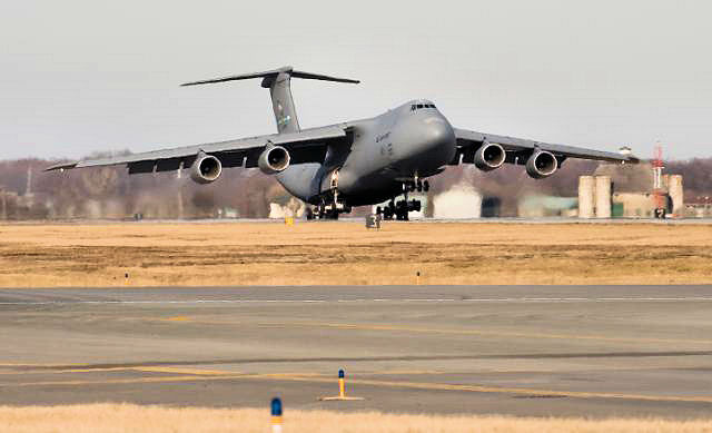 The Spirit of Global Reach Team Dover's first C-5M Super Galaxy, the Spirit of Global Reach, lands at Dover Feb. 9. Gen. Arthur Lichte, Air Mobility Command commander, was the delivery official. The aircraft will be assigned to the 436th Operations Group. (U.S. Air Force photo/Jason Minto)